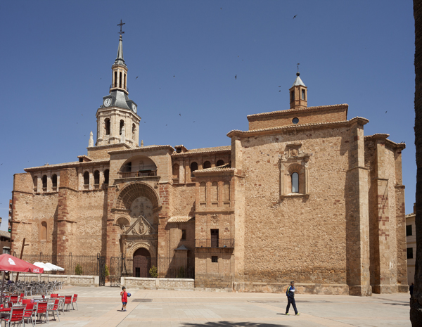 Ref: PM_100273_E_Manzanares.jpg; Manzanares; Templo de la Asunción; Castilla-la Mancha, Ciudad Real; Spain; fachada meridional; Cultural heritage; Europe/Spain/Manzanares; photo: Paul M.R.Maeyaert; © Paul M.R. Maeyaert